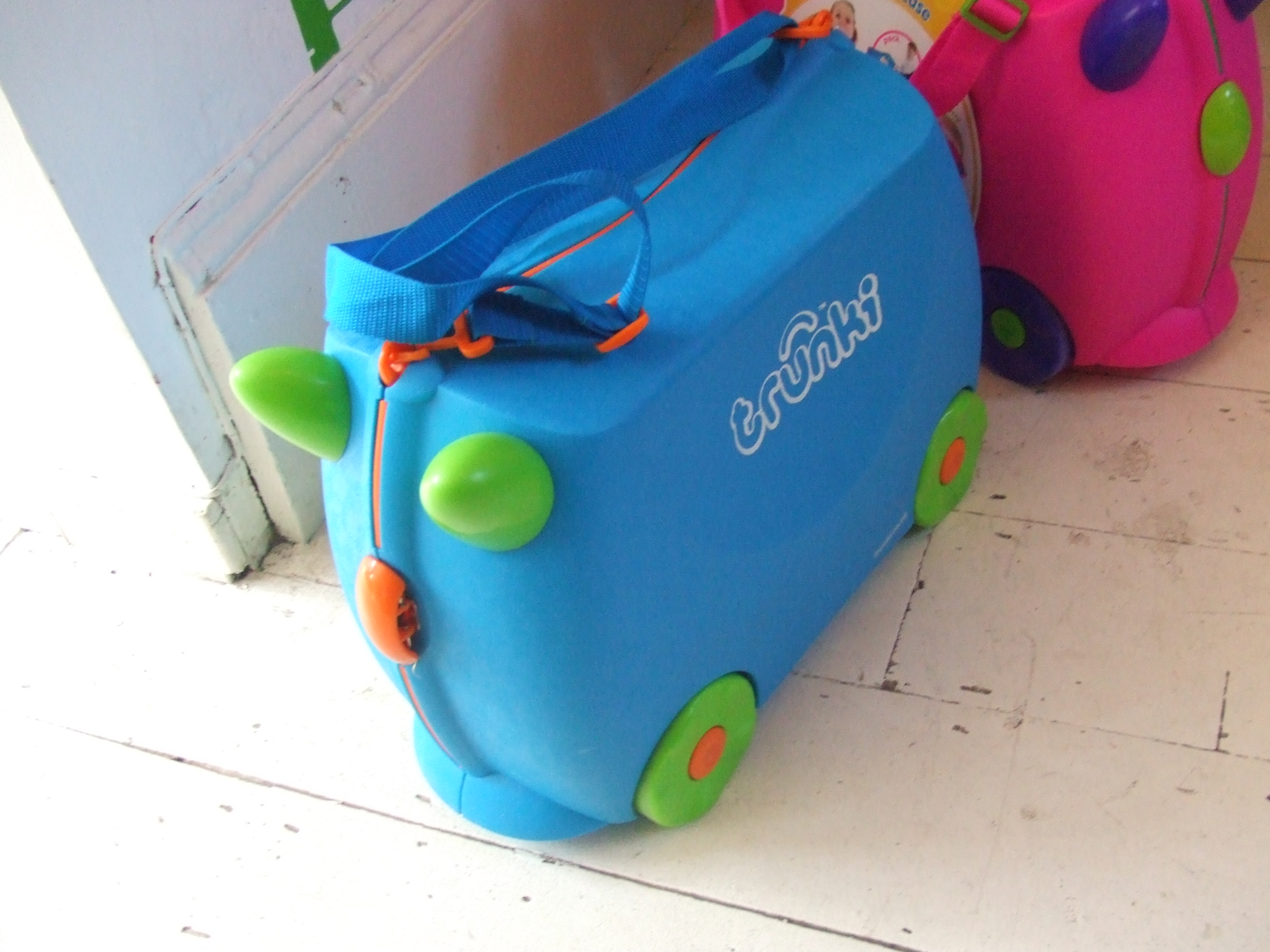 Trunki is a hand luggage approved, ride-on suitcase for children.